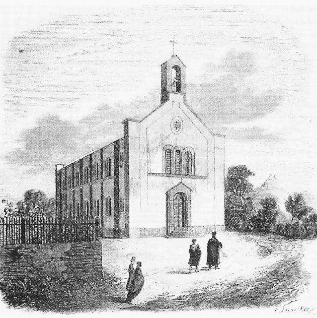 Lutherian church "Erlöserkirche" (1847) in Bad Kissingen (Bavaria)